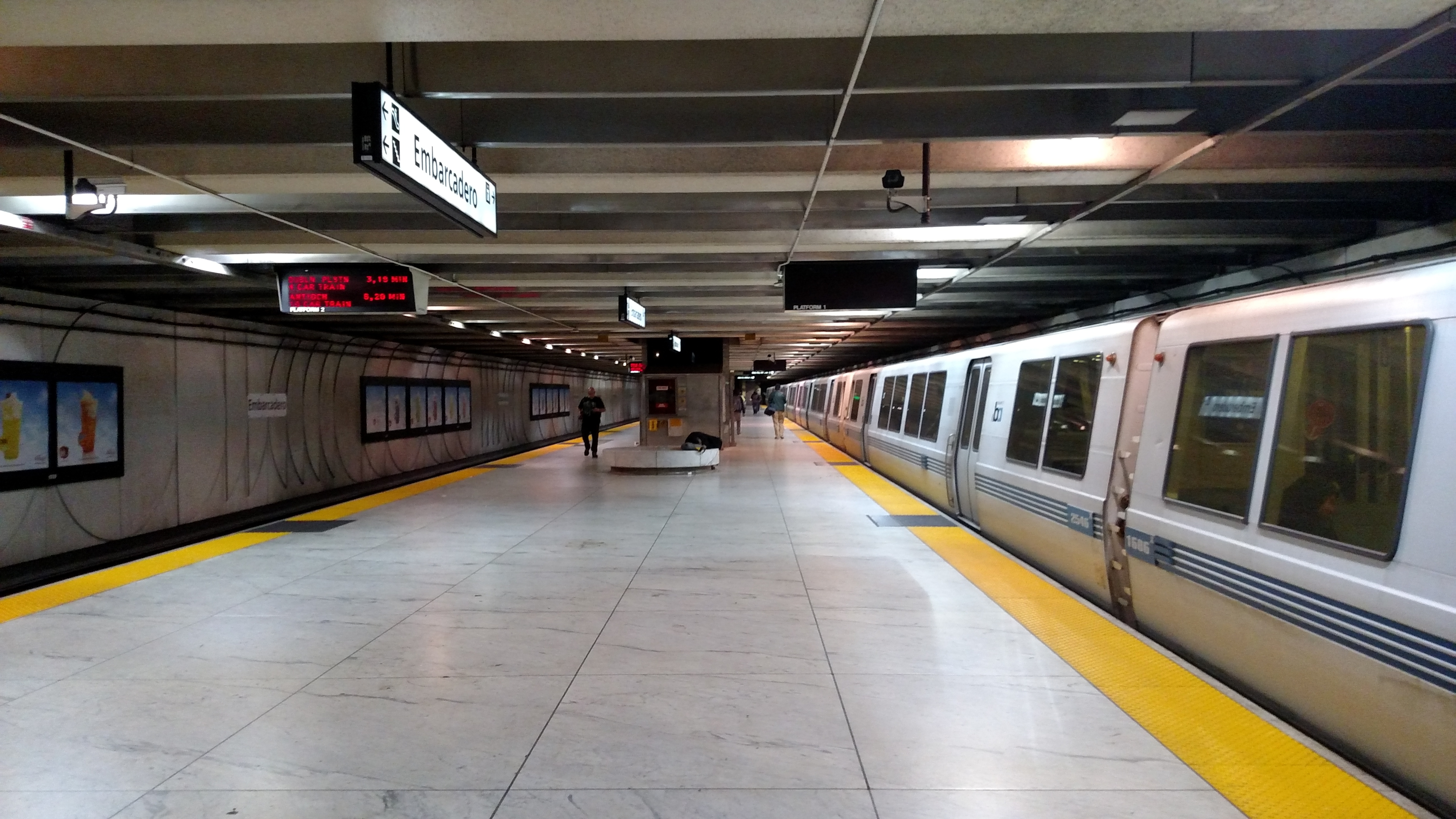 Daly City-bound BART train at Embarcadero station in July 2018